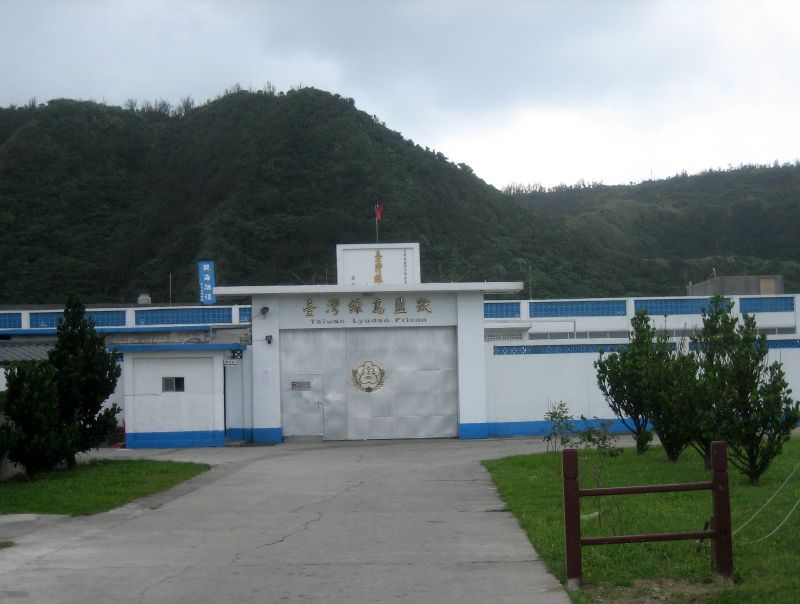 This photo taken by Prince Roy.中文（中国大陆）: 这张图由Prince Roy所拍摄。